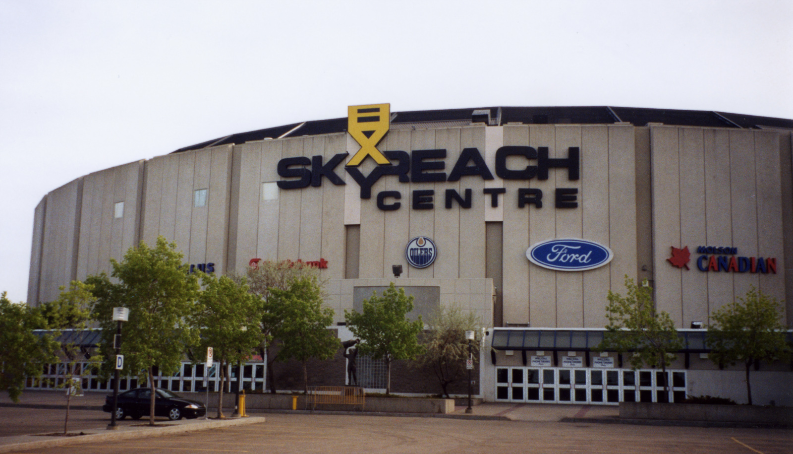 Skyreach Centre (now Rexall Place) is home to the NHL's Edmonton Oilers.